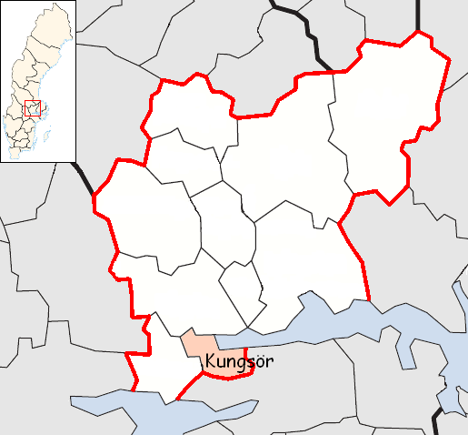 Kungsör Municipality in Västmanland County Designed by me. Mere outlines are a PD source from